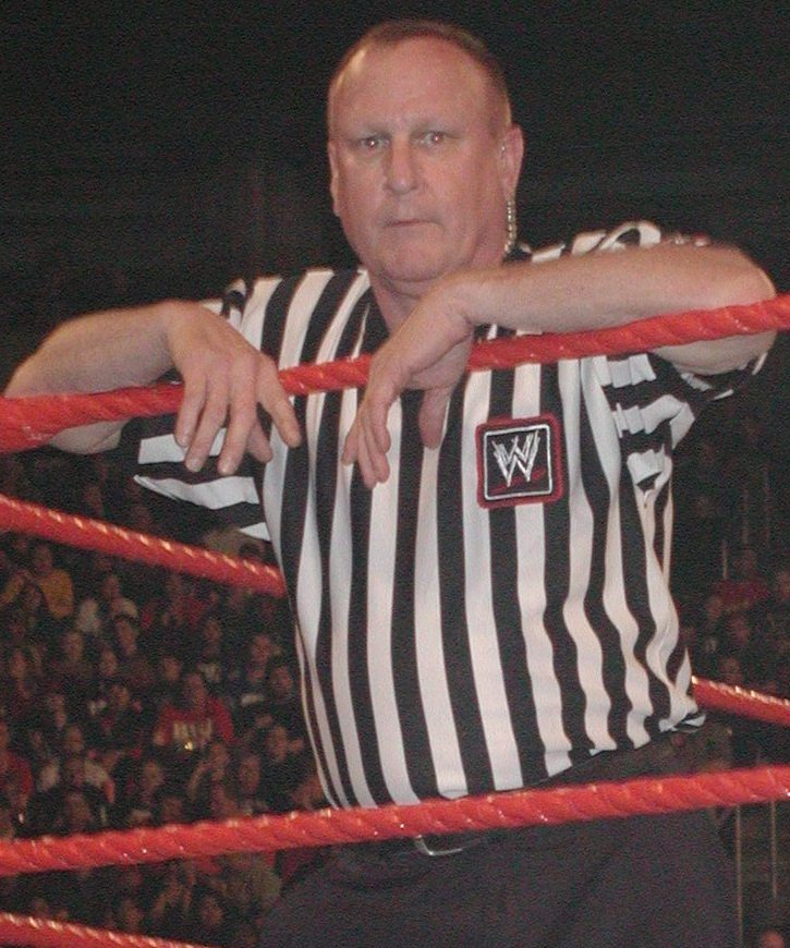 Earl Hebner on WWE Raw on March 31 2003 at the KeyArena in Seattle, WA.